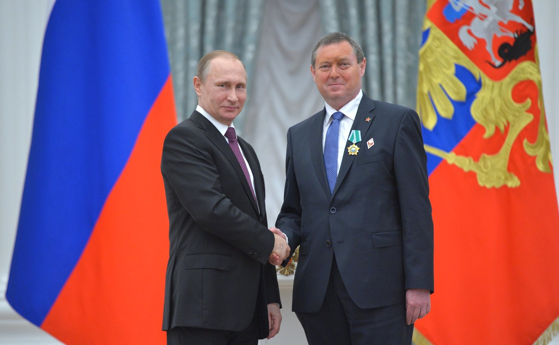 Jiří Maštálka